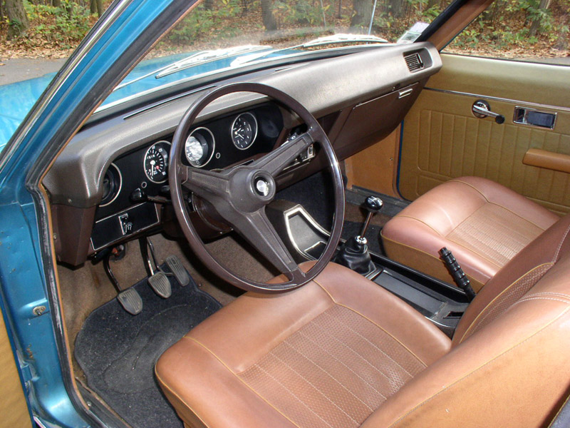 Chrysler_160_post_cond.jpg